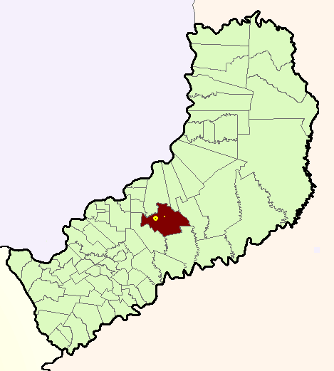 A map of Aristóbulo del Valle's municipio in Misiones province, Argentina. The big point is Aristóbulo del Valle town, the little one is Villa Salto Encantando town.